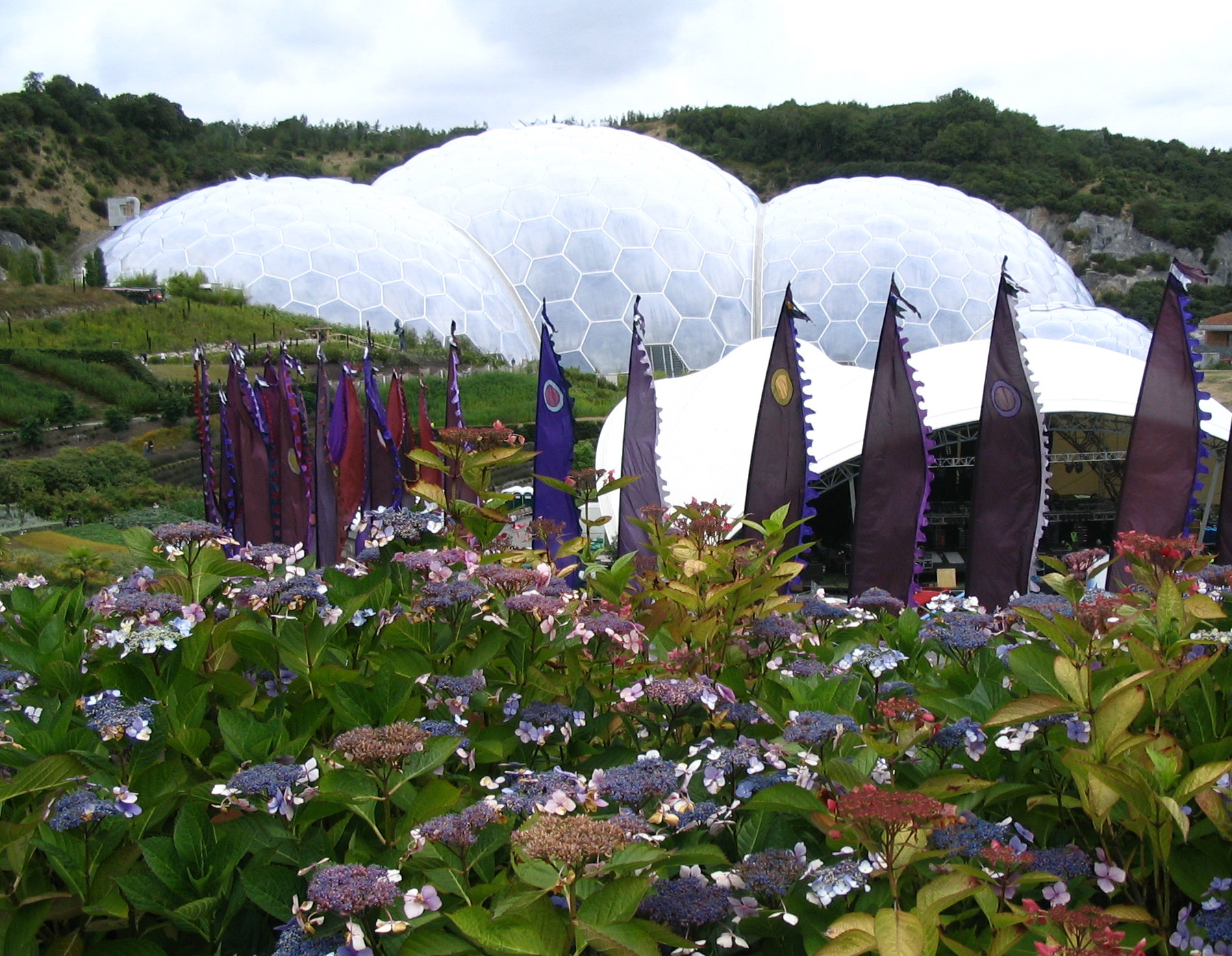 A close view on the Eden Project in Cornwall, England, UK.